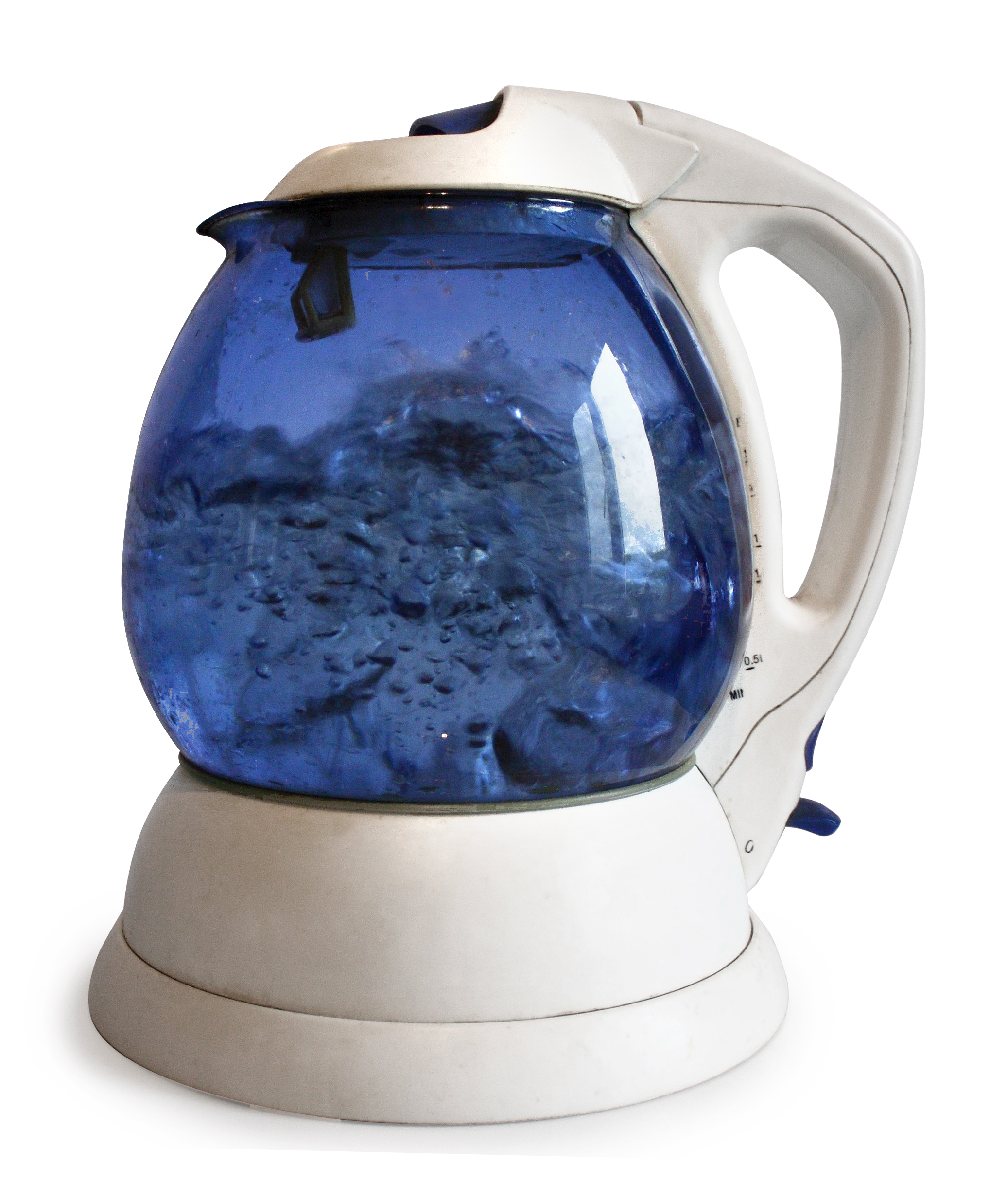 Electric water boiler